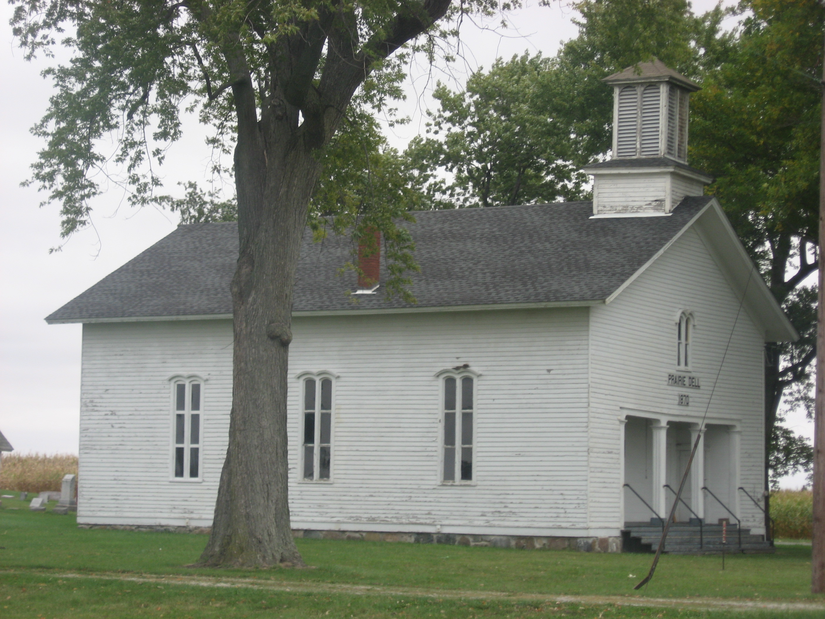 Western side and front of the Prairie Dell Meetinghouse, located on the northwestern corner of the junction of 2550 East and 2150 North Roads west of Iroquois in Concord Township, Iroquois County, Illinois, United States. Built in 1870, it is listed on the National Register of Historic Places.